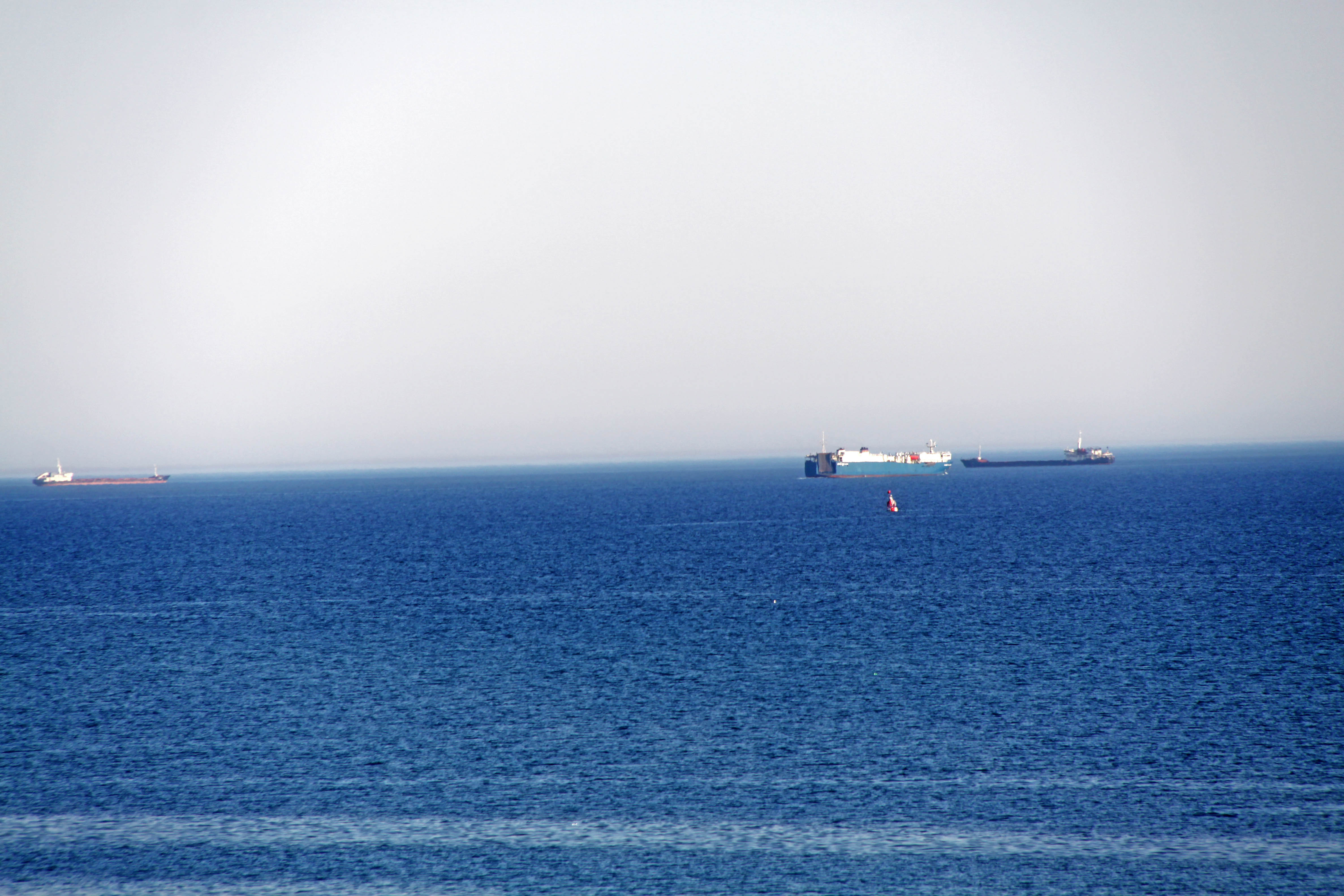 Sea and ships from Aktau's seashore